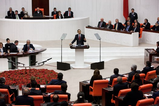 President Barack Obama addresses his remarks to the Turkish Parliament Monday, April 6, 2009, in Ankara, Turkey.